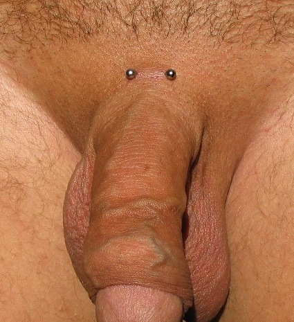 My pubic piercing, modified bananabell